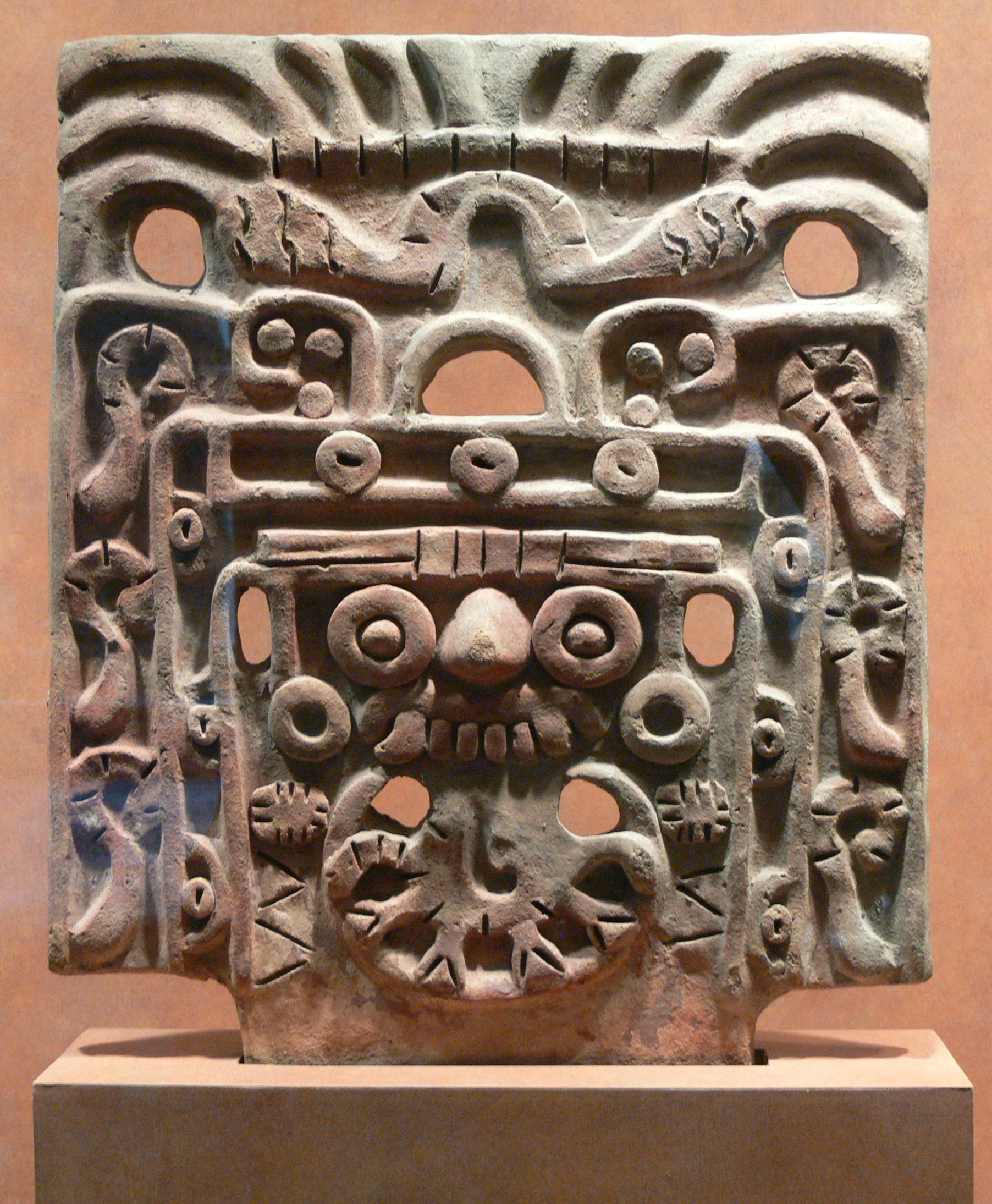 National Museum of Anthropology - Teotihuacán. Mask of Tlaloc, god of the rain